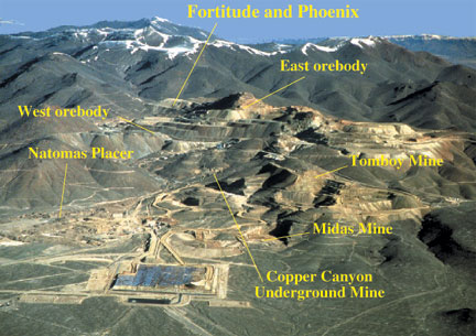 Photograph of gold and copper deposits in the Battle Mountain Mining District, Nevada.